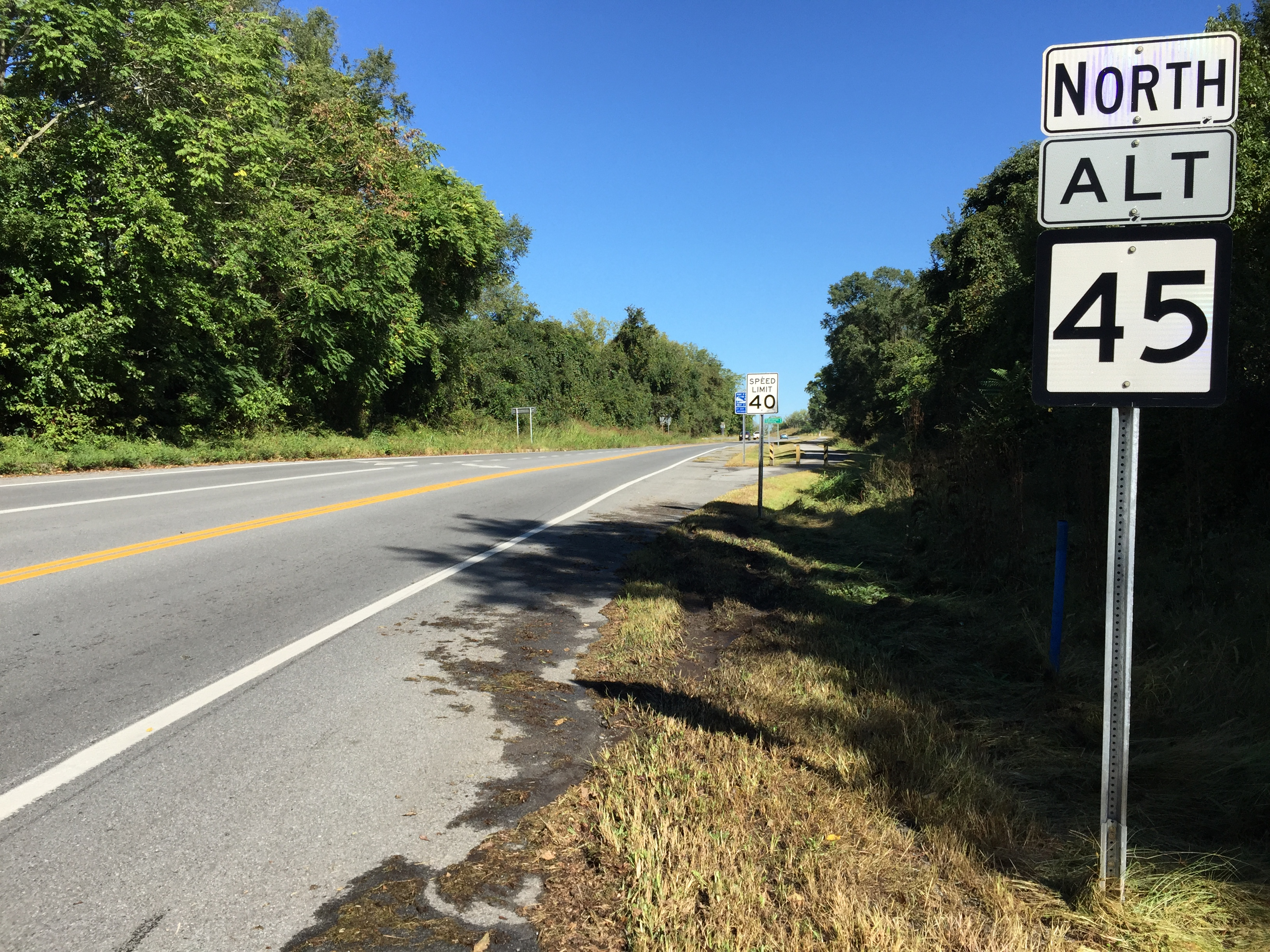 View north along West Virginia State Route 45 Alternate (Potomac Farms Drive) at West Virginia State Route 480 (Kearneysville Pike) in Morgan Grove, Jefferson County, West Virginia